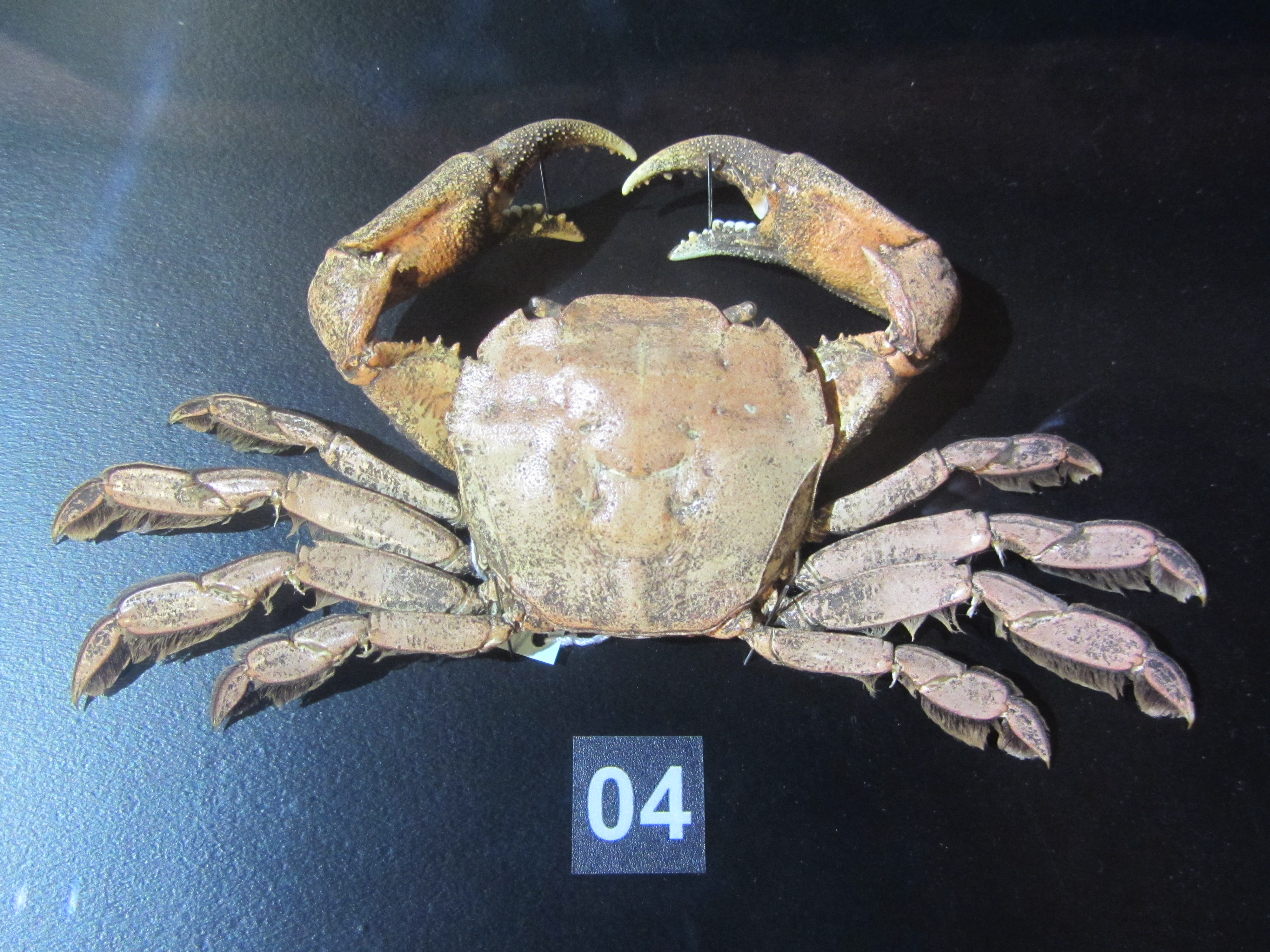 Specimen of Varuna litterata